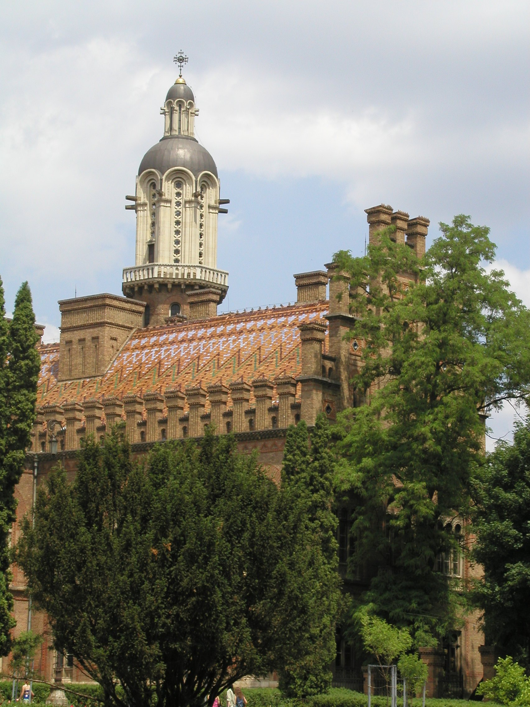 Chernivtsi University, Ukraine